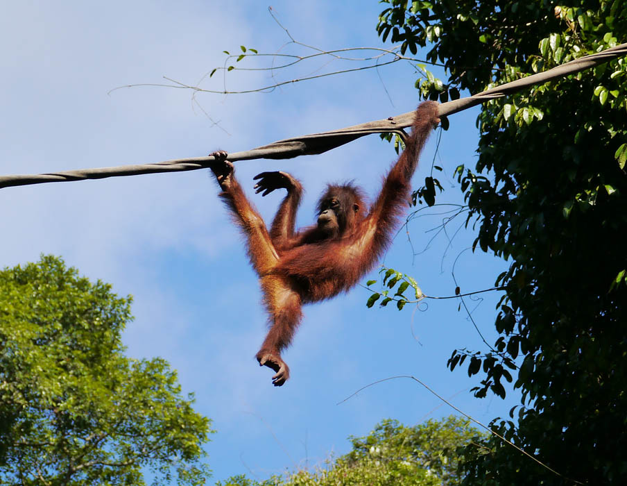 Sepilok Orangutan Rehabilitation Centre. Sabah, Malaysia.